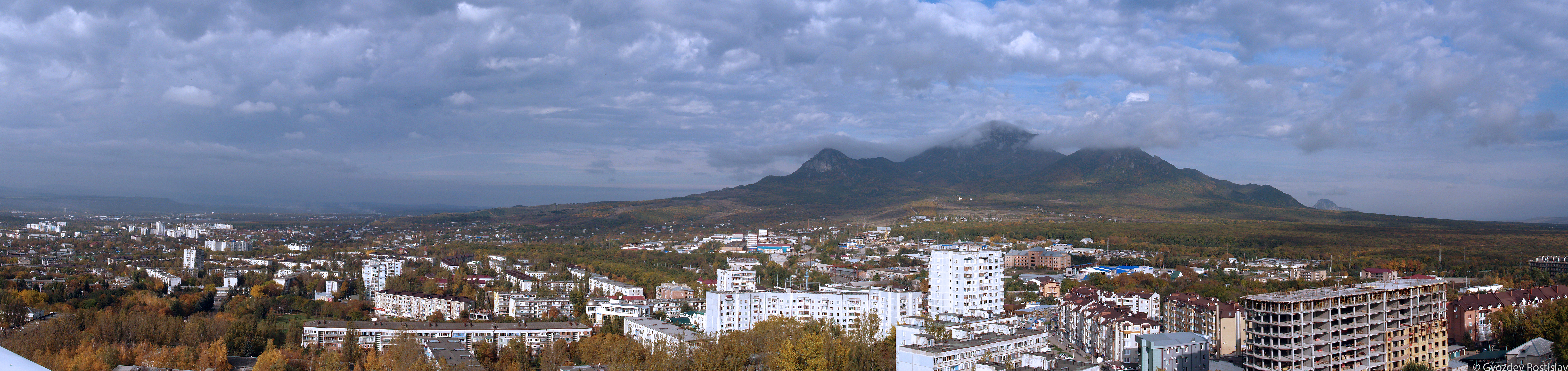 Panorama of Pyatigorsk